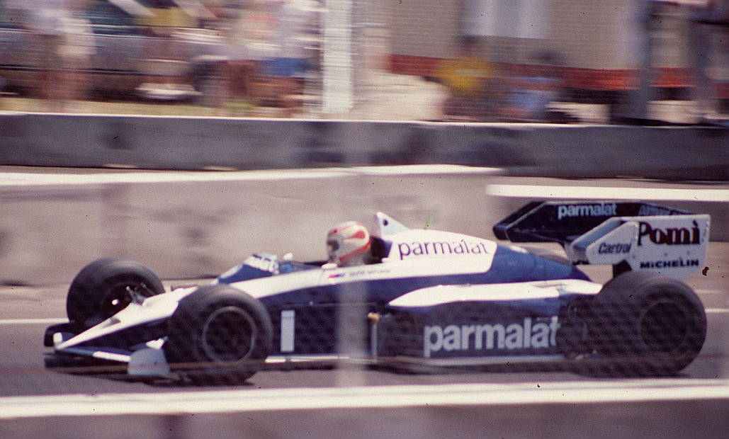 Nelson Piquet, #1 Brabham-BMW. He spun out on Lap 45. Piquet was the Formula 1 World Champion in 1981, 1983 and 1987.